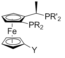 H-U. Blaser, W. Brieden, B. Pugin, F. Spindler, M. Studer and A. Togni, Top. Catal., 2002, 19, 3.